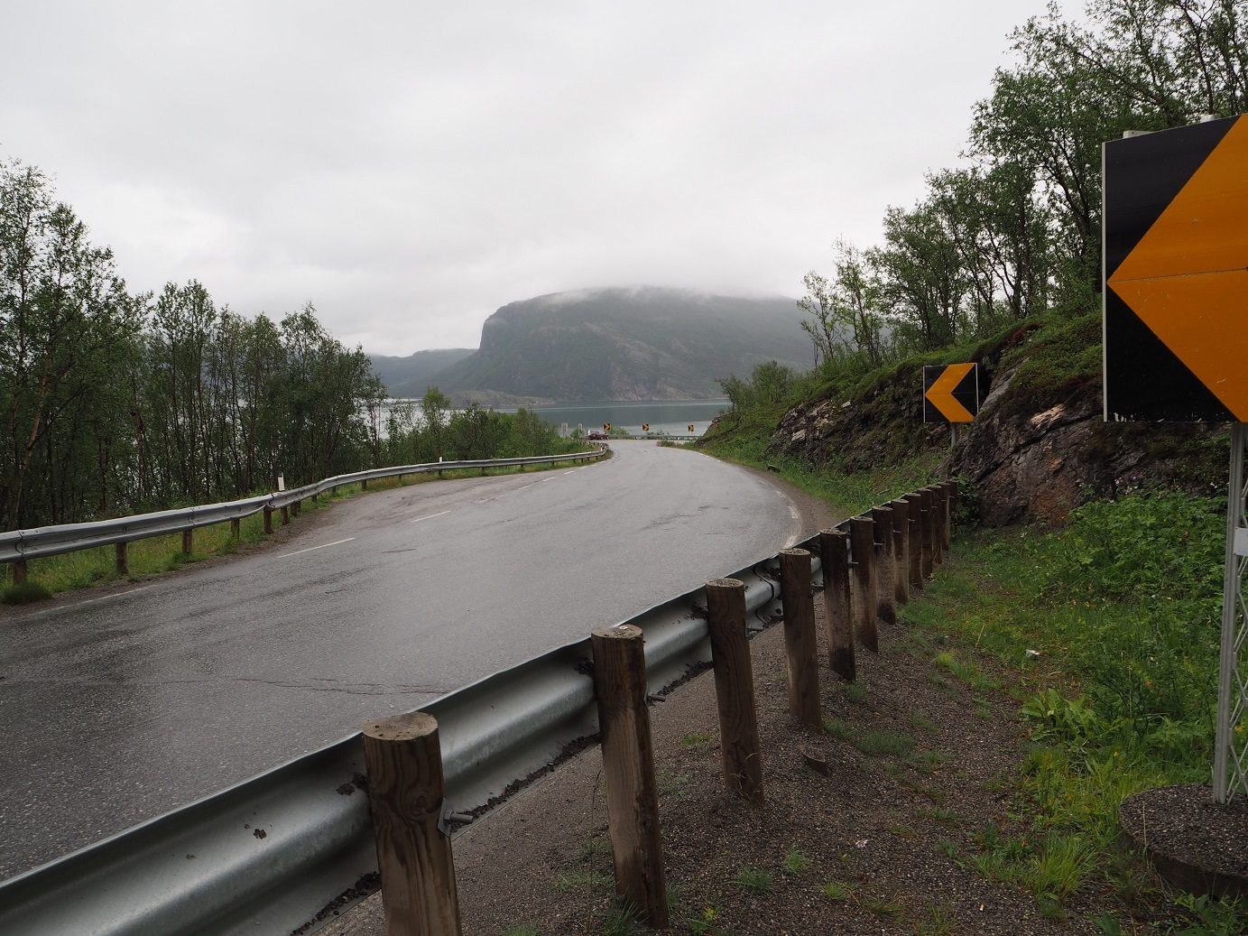 Norwegian Road E6 near Burfjord